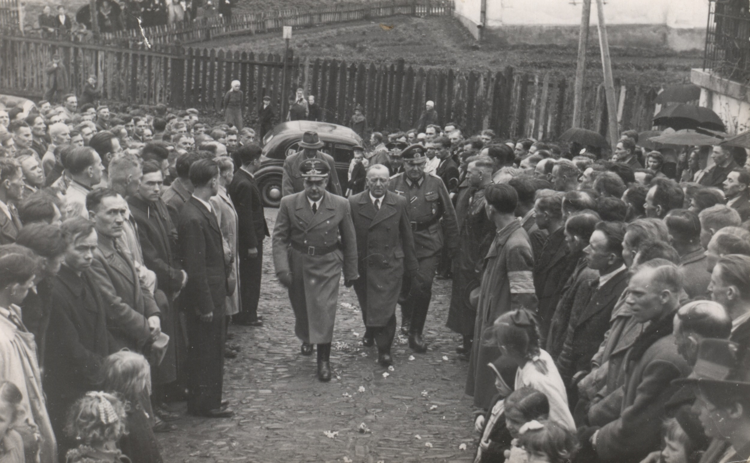 SS Galizien recruits waiting for head of district. Kreishauptmann Hoffstetter of SS Galizien enters Greek Catholic church in Sanok, Poland.